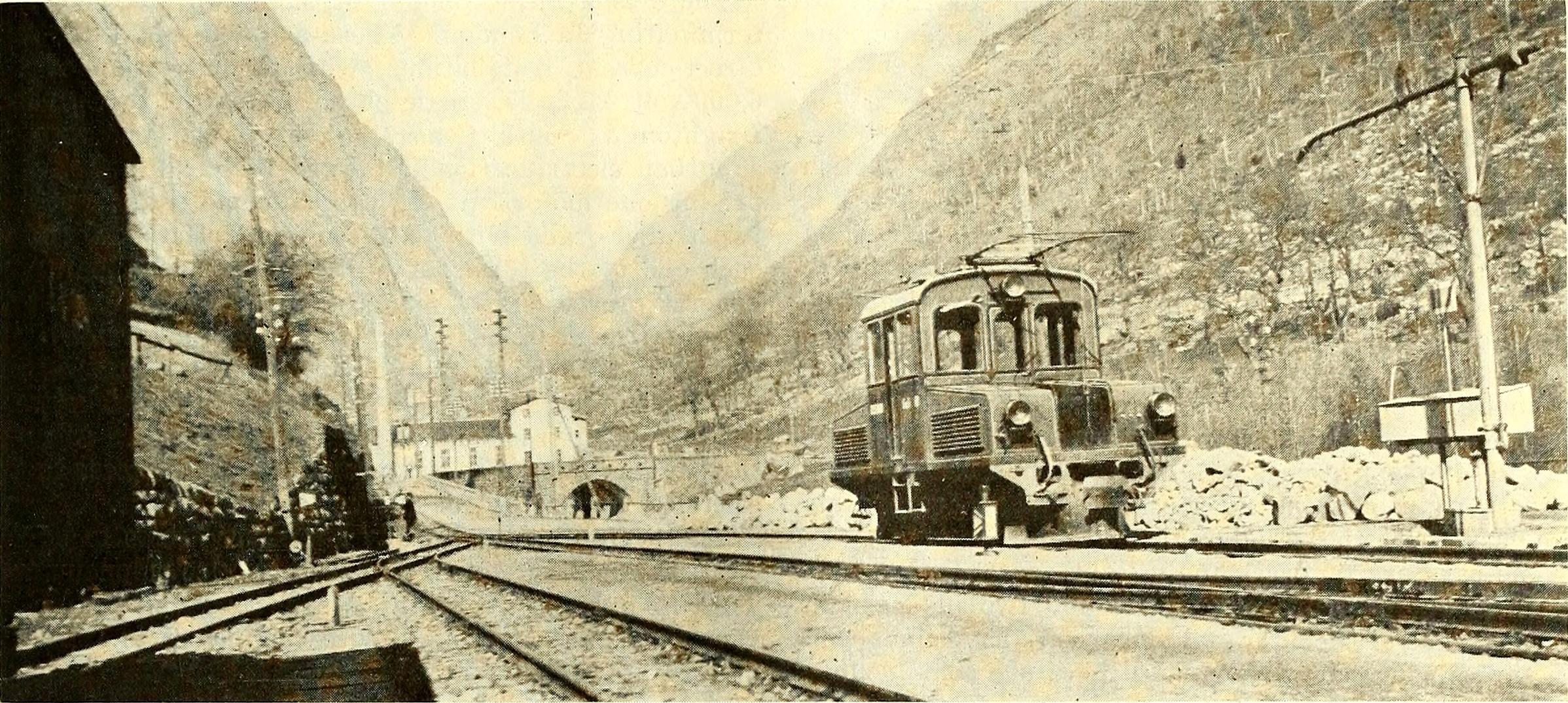 Title: Electric railway journal Year: 1908 (1900s) Authors: Subjects: Electric railroads Publisher: (New York) McGraw Hill Pub. Co Text Appearing Before Image: 1— Some 750-volt, direct-curreni trolley construction on BerninaBahn. 2— 11,000-volt trolley over turntable in roundhouse. Landquart,Rhatische Bahn. 3— 11.000-volt switch in roundhouse at Landquart, connectingacross section break shown in the following fignare. 4— 11,000-volt trolley anchor and section break at roundhousedoor. ,5—15,000-volt, single-phase locomotive and yards at Sp.iez,Lotschberg Railway. 6 — 11,000-volt, single-phase trolley construction at station,Rhatische Balm. 7— ■ 1.5,000-volt, single-phase trolley construction at Biasca,St. Gotthard Line. „or 8— Hvdraulic power plant at Kandergrund, which under 9»5-rt.head generates 15,000-volt, 15-cycle, single-phase power. June 11, 1921 Electric Railway Journal 1069 Railway Electrification in Europe By J. V. DOBSON and F. E. WYNNE- Text Appearing After Image: A 250-HP., 5,000-VOLT, 20-CYCLE, SINGLE-PHASIi LOCOilOlIVE ON THE LOCARNO-PONTELiKOLLO-BlGNASCO RAILWAY, SWITZERLAND The Authors, Recently Returned from a First-Hand Study of Transportation Conditions in Englandand on the Continent, Have Set Down Their Impressions of Present Practices andTendencies in This Field—They Summarize the Points of Differ-ence Between American and European Railway Usage A FEW months ago the writers had occasion to makea trip through the European countries in whichrailroad electrification has made substantialprogress or in which there is a promising field fordevelopment in this line. In the course of their travels,covering a period of two months or more, they visitedEngland, Norway, Sweden, Germany, Switzerland, Italyand France. Some observations made on the tour areset down in the paragraphs below. Before taking up indetail the conditions noted in the several countries re-spectively, a summary of some of the points of noveltyin railway practice, considering